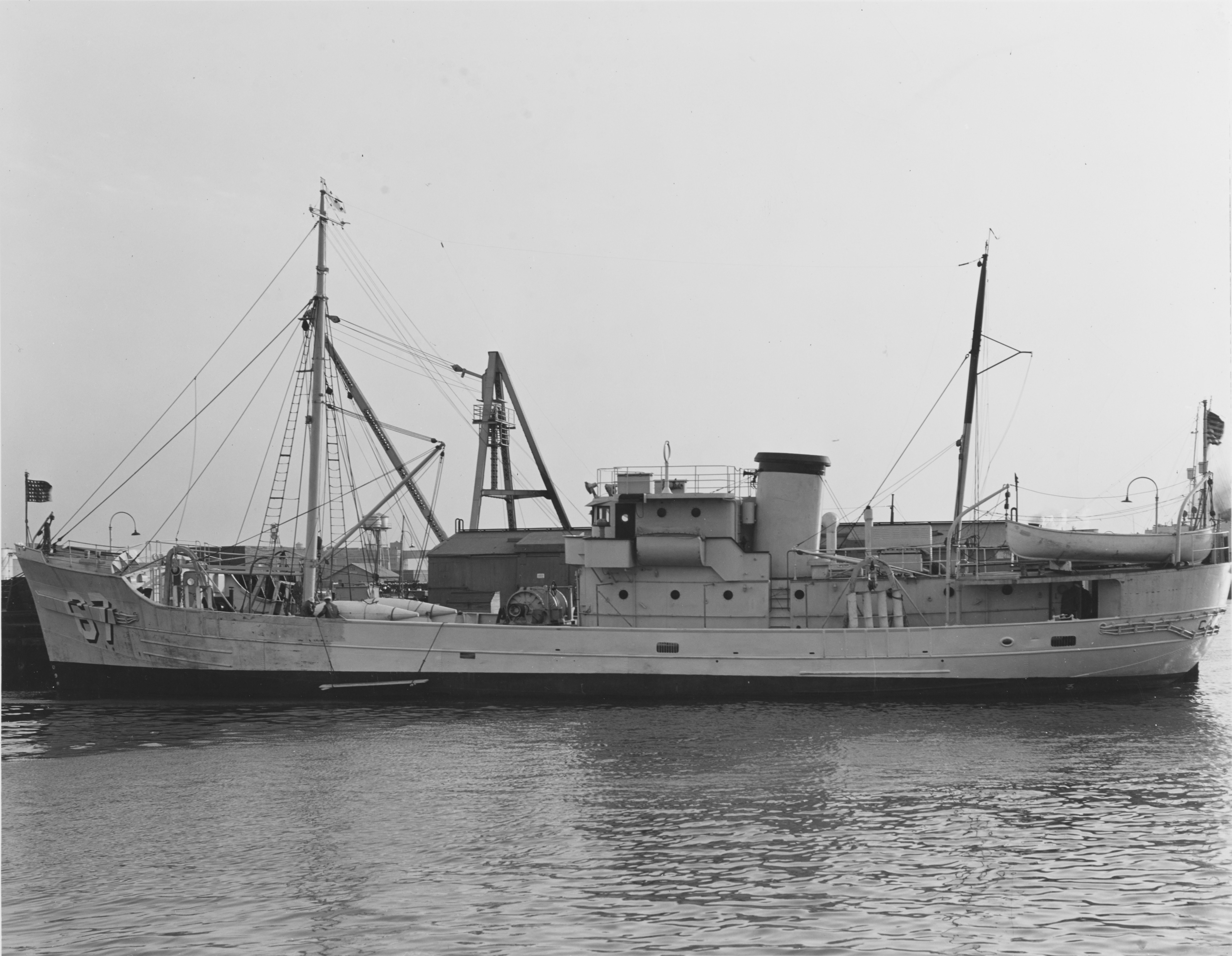 At Hampton Roads, Virginia, 25 November 1940. Photograph from the Bureau of Ships Collection in the U.S. National Archives.